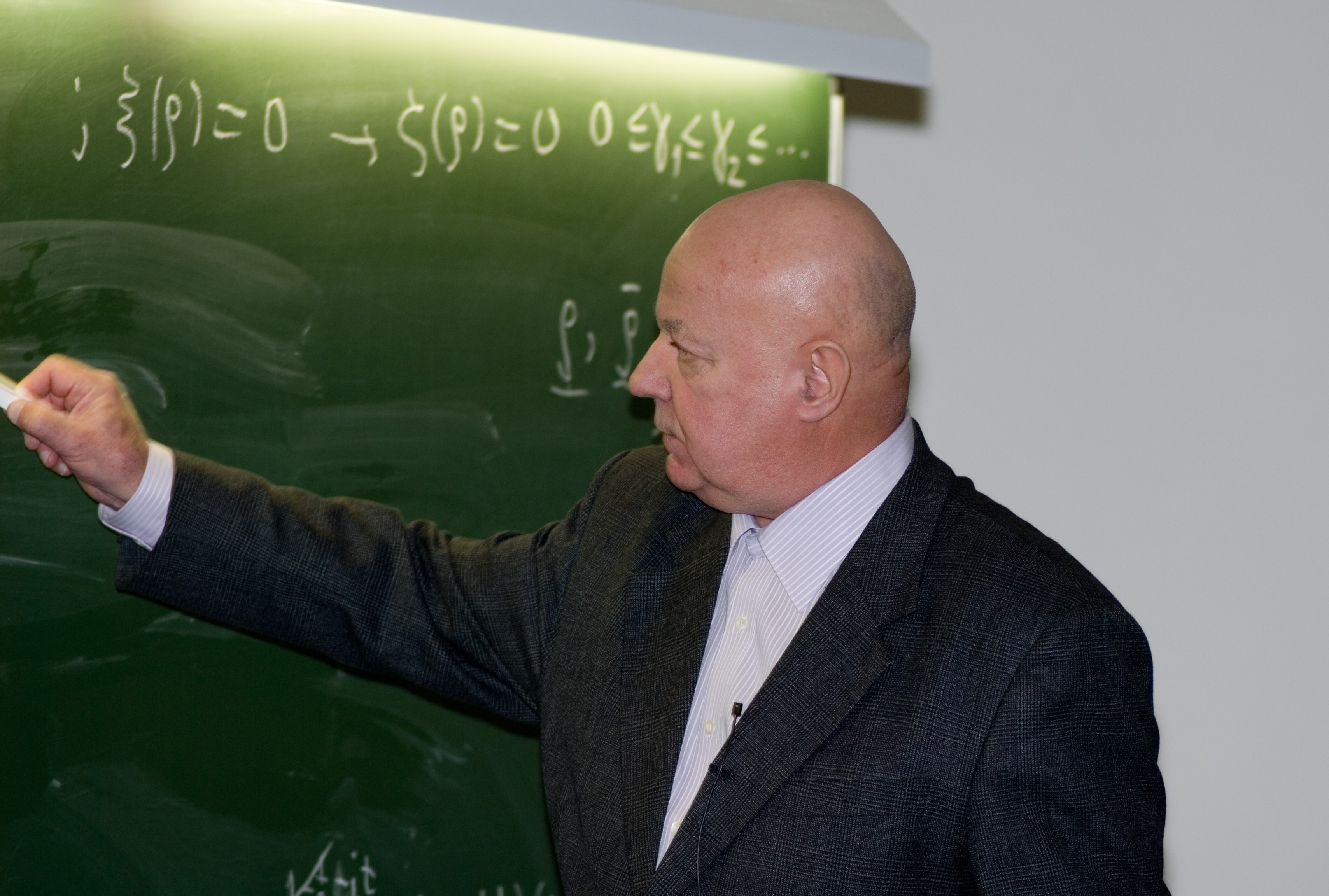 A.A.Karatsuba on lecture in the Steklov Institute of Mathematics